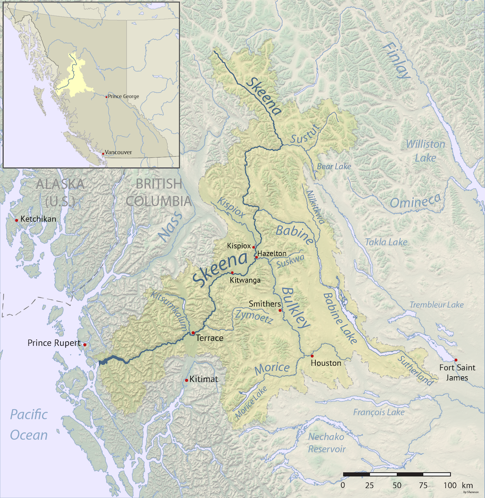 Map of the Skeena River drainage basin in BC, Canada. Made using OpenStreetMap data (SRTM data for topography).